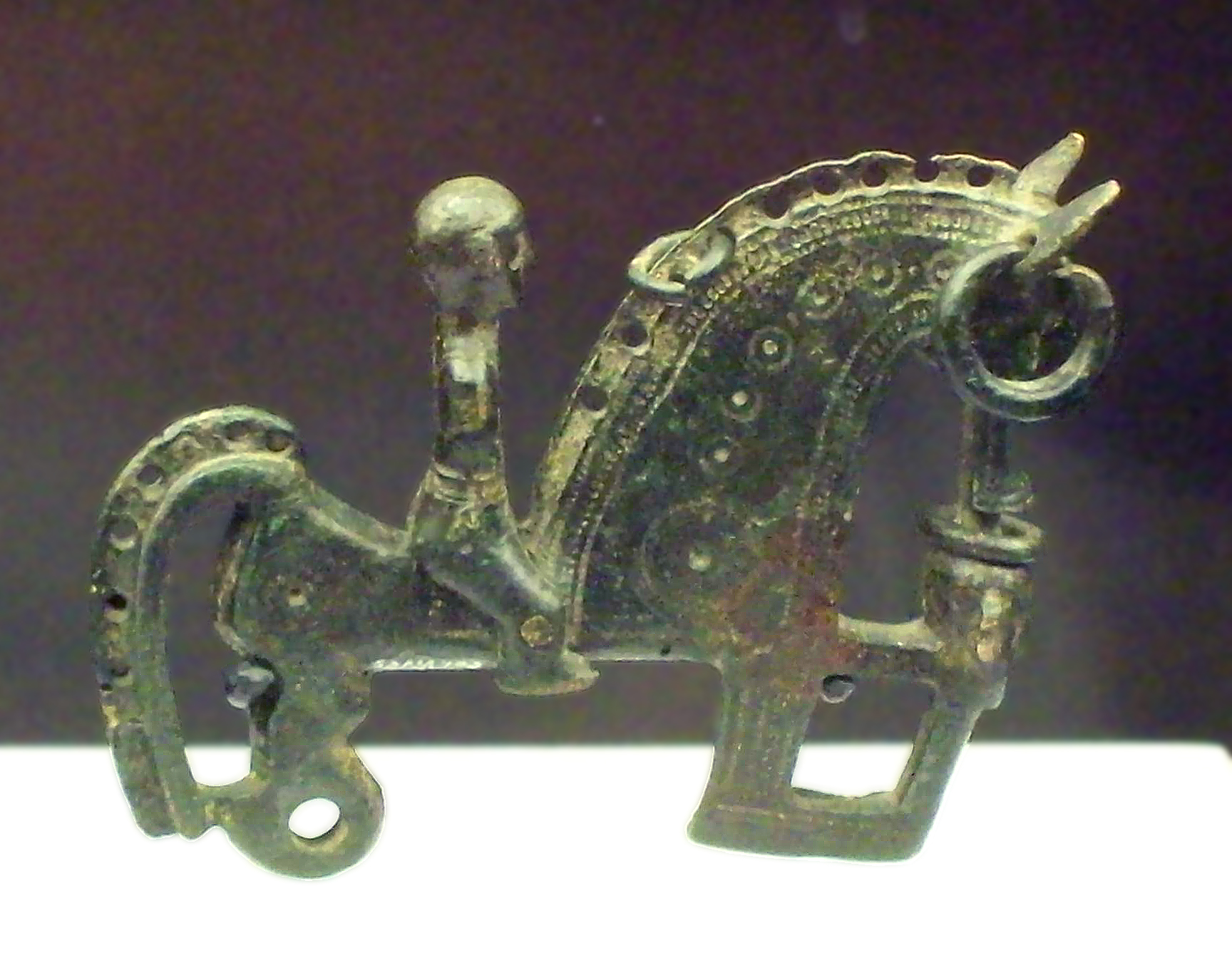 Celtiberian fibula representing a rider. Under the horse's head, there is a cut human head, maybe from a defeated enemy. This kind of fibulae are considered to be an emblem of elite warriors.